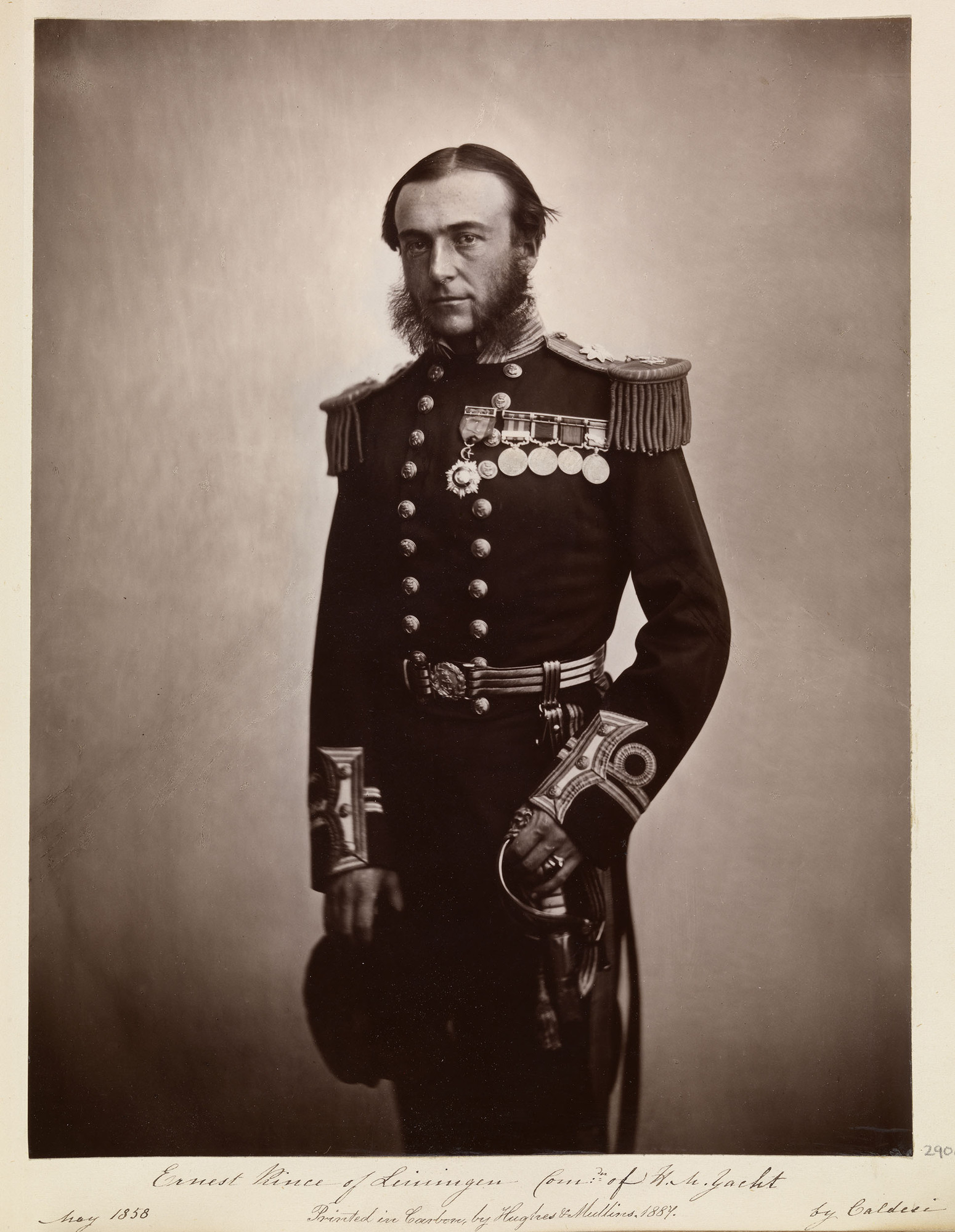 Ernest, Prince of Leiningen (1830-1904), Commander of H.M. Yacht